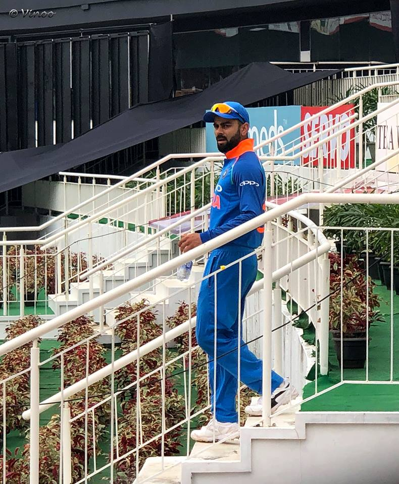 Indian cricket team captain Virat Kohli at Greenfield Stadium, Trivandrum during match with West Indies team on 1st Novembeer 2018